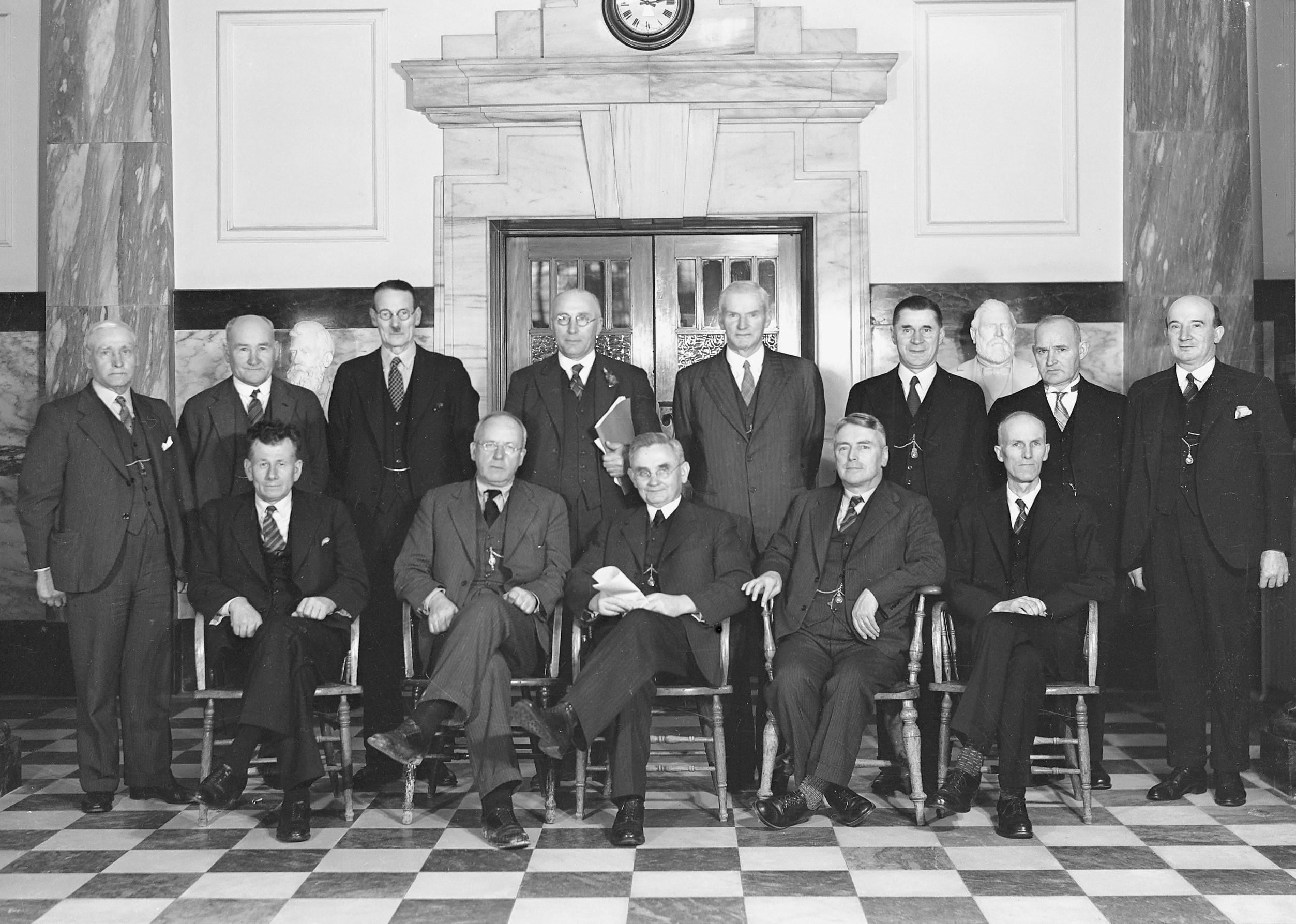 The Labour cabinet, photographed in the Parliament Building ca 1935 by S P Andrew Ltd of Wellington. Back row (left to right): William Lee Martin, Hubert Thomas Armstrong, Robert Semple, William Edward Parry, Mark Anthony Fagan, Frederick Jones, Frank Langstone, Patrick Charles Webb. Front row (left to right): Daniel Giles Sullivan, Peter Fraser, Michael Joseph Savage, Walter Nash, Henry Greathead Rex Mason.